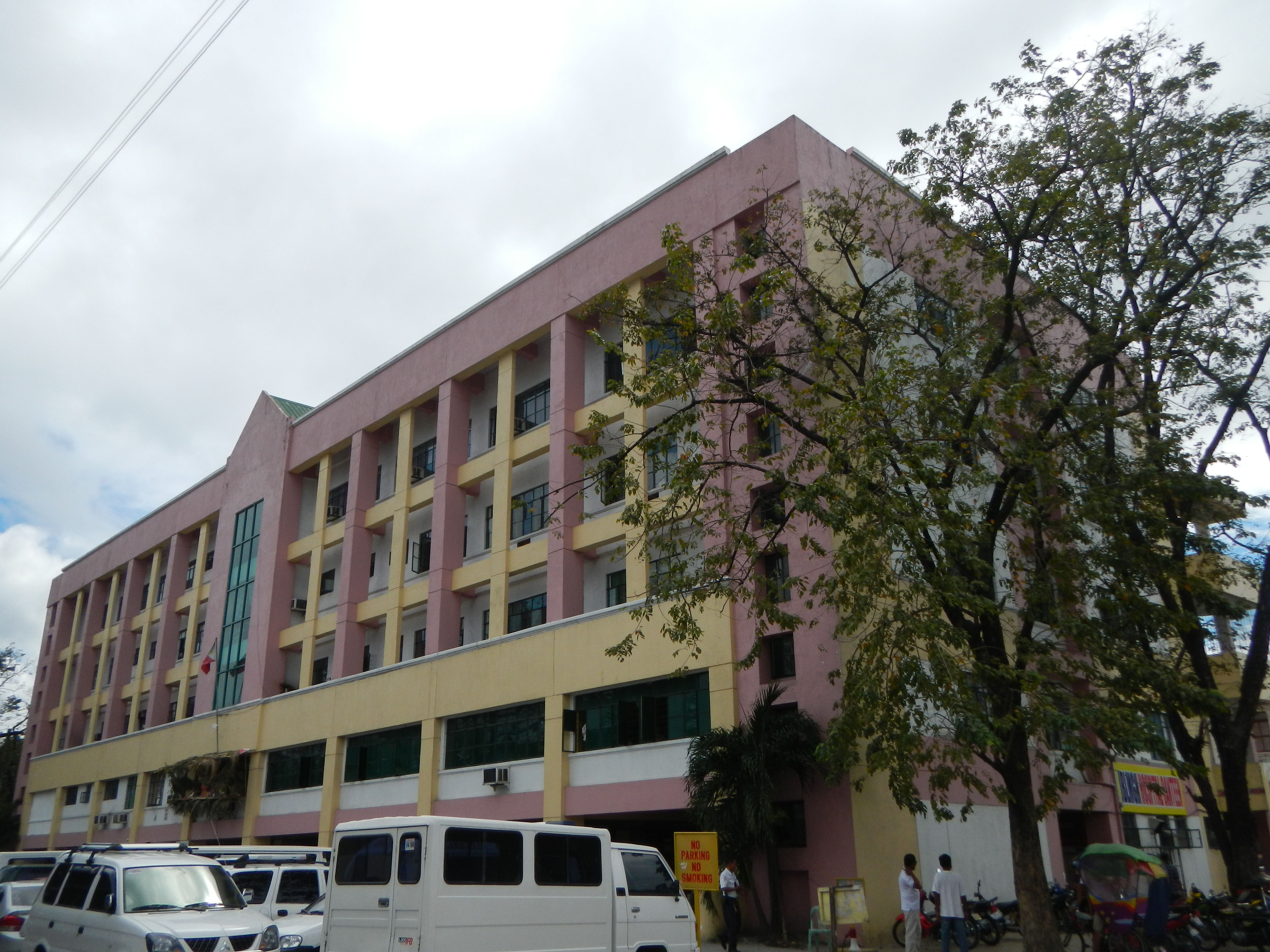 Jose B. Lingad Memorial General Hospital, City of San Fernando